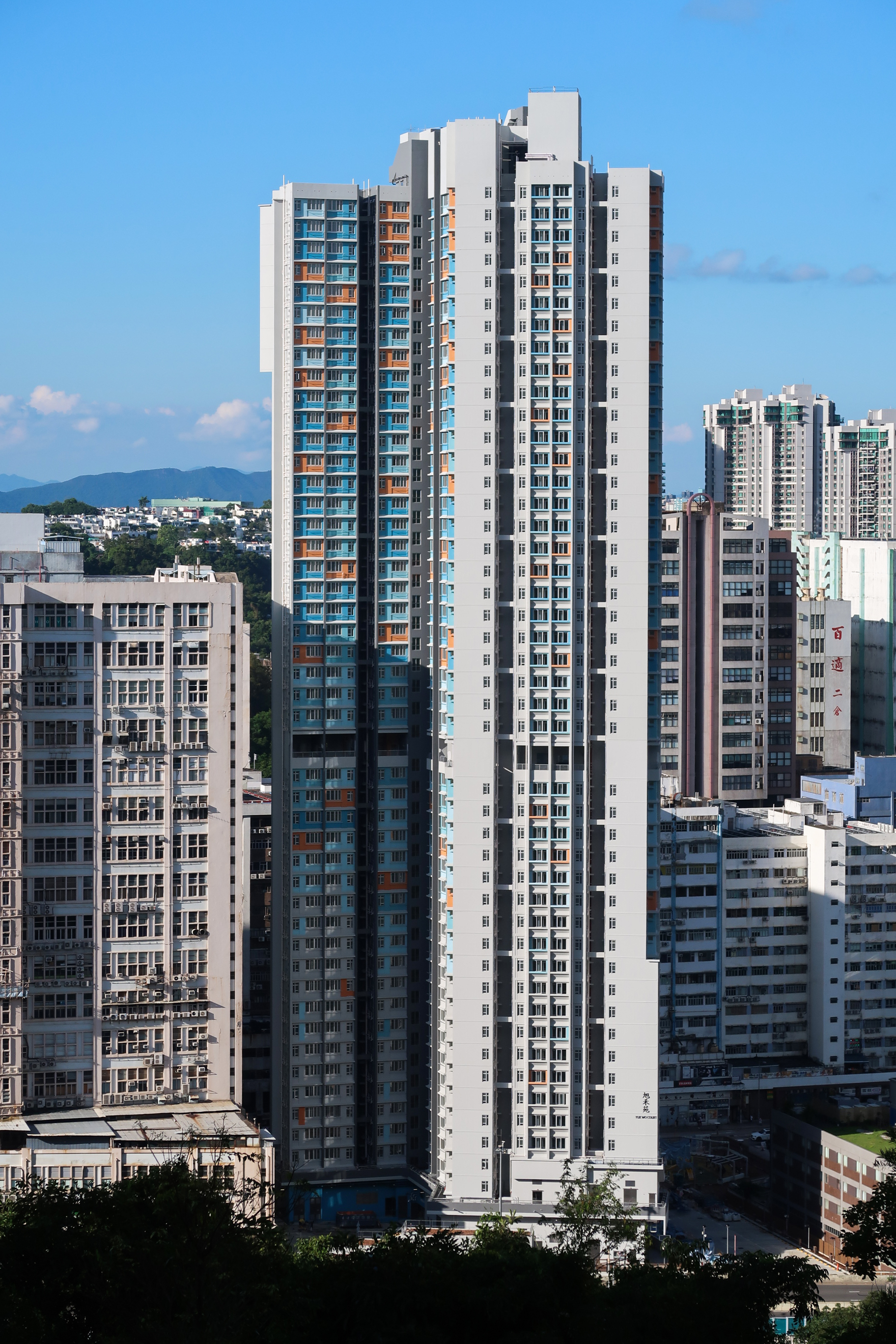 Yuk Wo Court